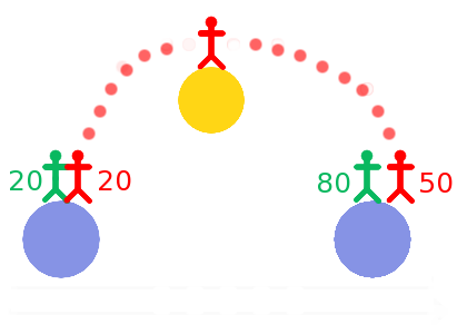 An overview of the twin paradox